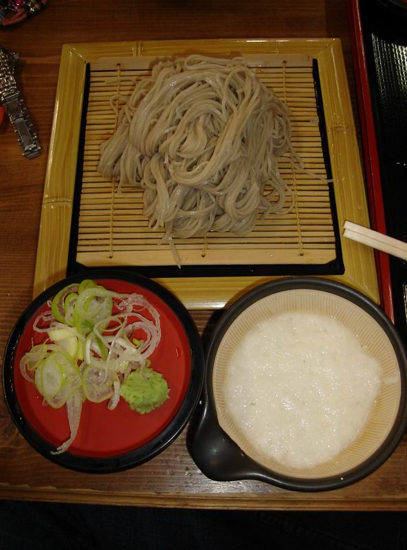 Teuchi Soba with Tororo @ Some Onsen in Nagano (forgot the name)